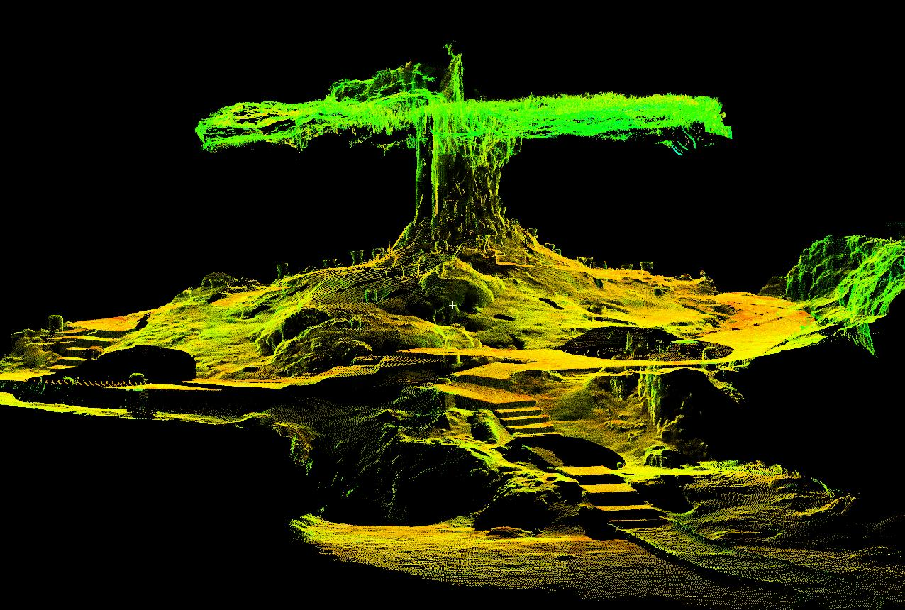 This composite 3D laser scan data image shows staircases and artifacts (primarily incense burners carved in the image of the goggle-eyed rain deity Tlaloc) surrounding the great limestone column of Balankanche (a cave at the Chichen Itza world Heritage site in Yucatán, Mexico), stretching from floor to ceiling and very much resembling the ancient Maya conception of the World Tree (Wacah Chan). In ancient Maya belief systems, a cave is a sacred place. Caves offer a portal to Xibalba, the Maya underworld, where the spirits of the valiant dead tangle with supernatural beings, and the roots of the great World Tree are found. From here, these roots extend through the earthly realms of the forests up to the celestial heavens of the mountains. Caves are seen as the mouths of the Witz mountain spirits, and water is seen as having its origin deep within them, issuing forth as rain or rivers. The limestone karst landscape of the Yucatan is possessed of a great many caves, and most Maya cities have several which were used as elite temples for ceremonial purposes, mainly those involved in the invocation of water and crop fertility (corn is also seen as having originated in Xibalba).